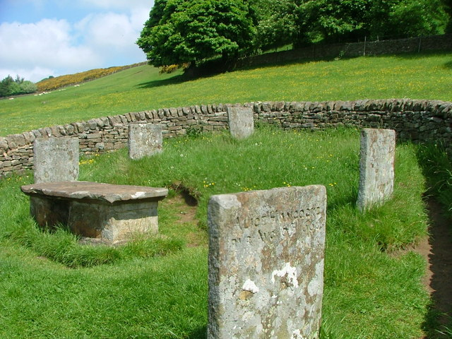 Riley Graves - Eyam, Derbyshire